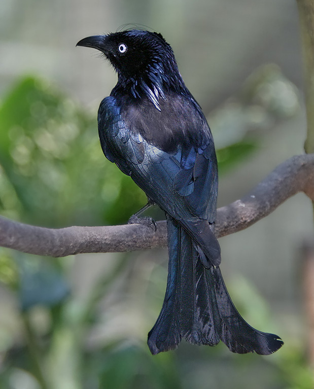 Hair-crested Drongo, in Singapore